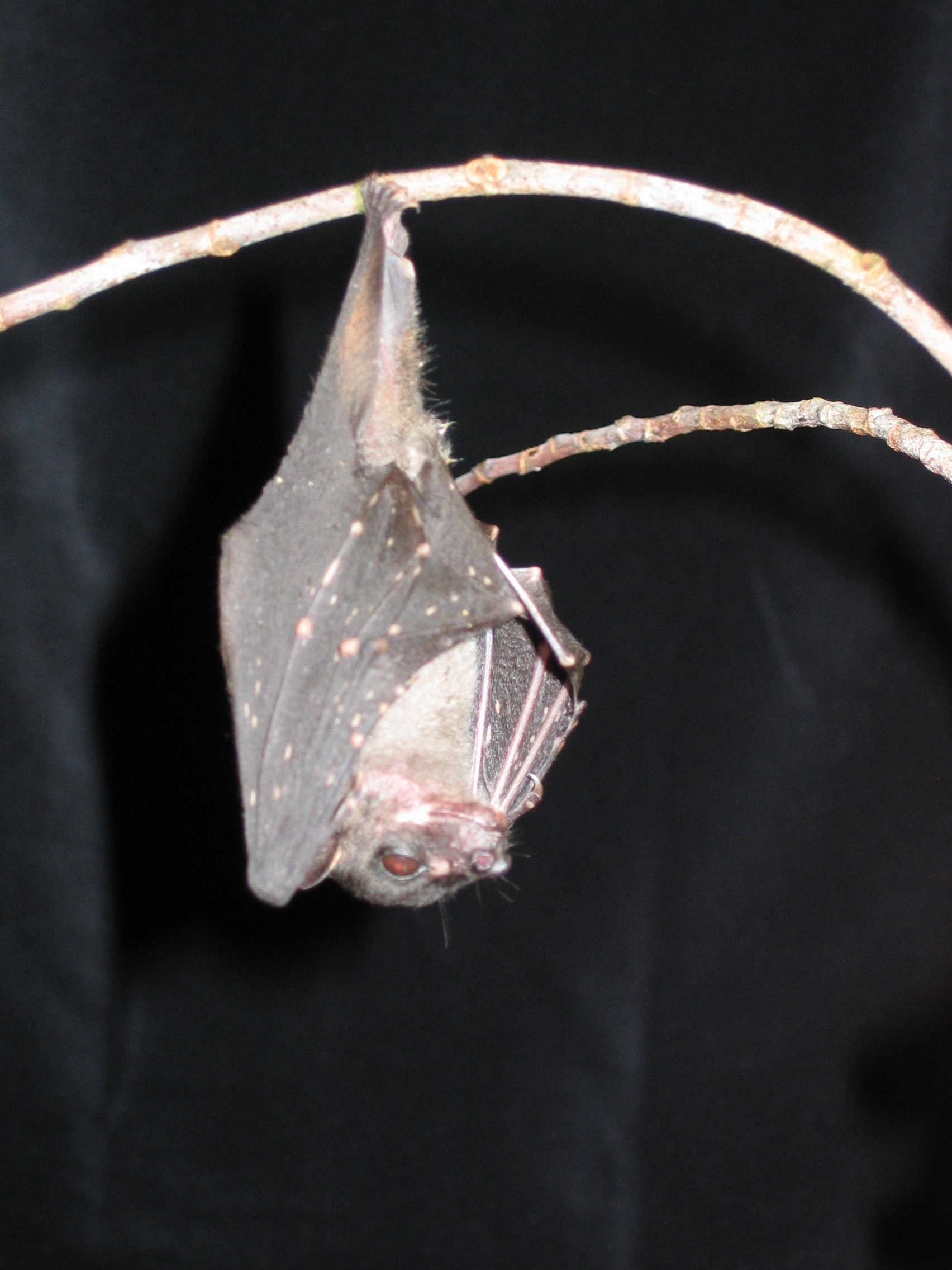 Tabdulla 13:04, 15 October 2006 (UTC)